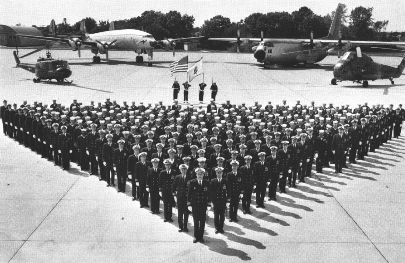 The personnel of U.S. Navy Antarctic Development Squadron 6 (VXE-6) with the aircraft the squadron used during the "Deep Freeze '71" deployment to Antarctica (l-r): Bell UH-1D Huey, Lockheed C-121J Willie Victor (BuNo 131624), Lockheed LC-130R Hercules (BuNo 155917) and a Sikorsky LH-34D Seahorse. The C-121J 131624 was retired following "Deep Freeze '71" in March 1971. The LC-130R 155917 later crashed at the South Pole Station, Antarctica, on 28 January 1973.